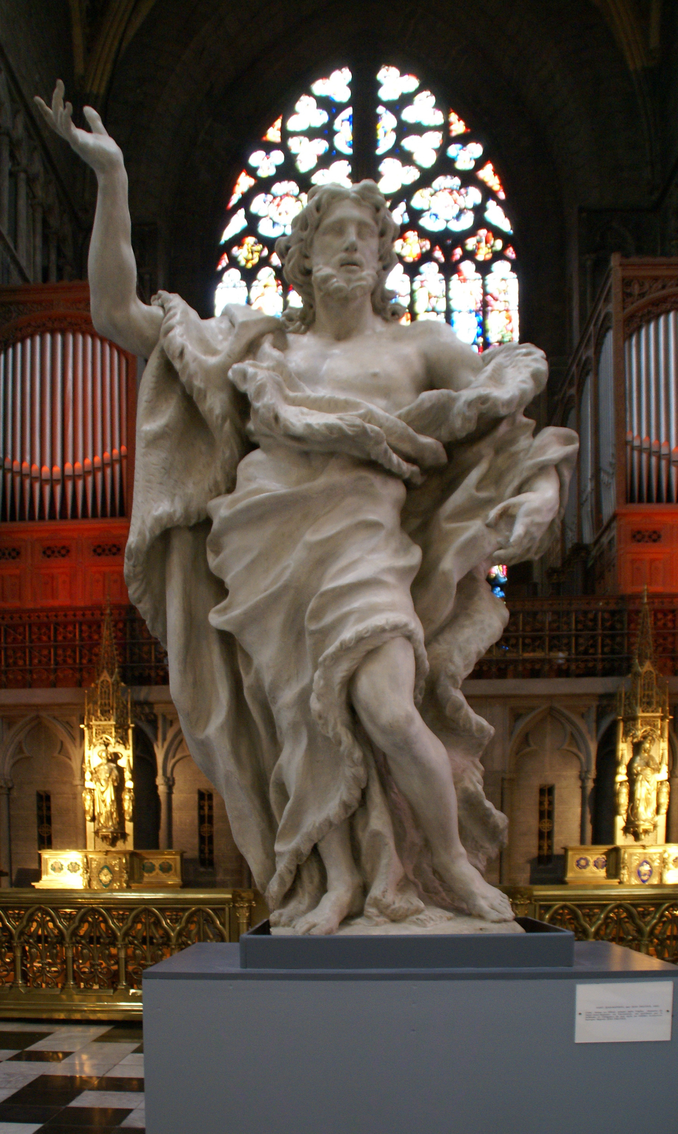 Liège (Belgium), Saint Paul's Cathedral, John the Baptist (wood) by Jean Del Cour, (1682)